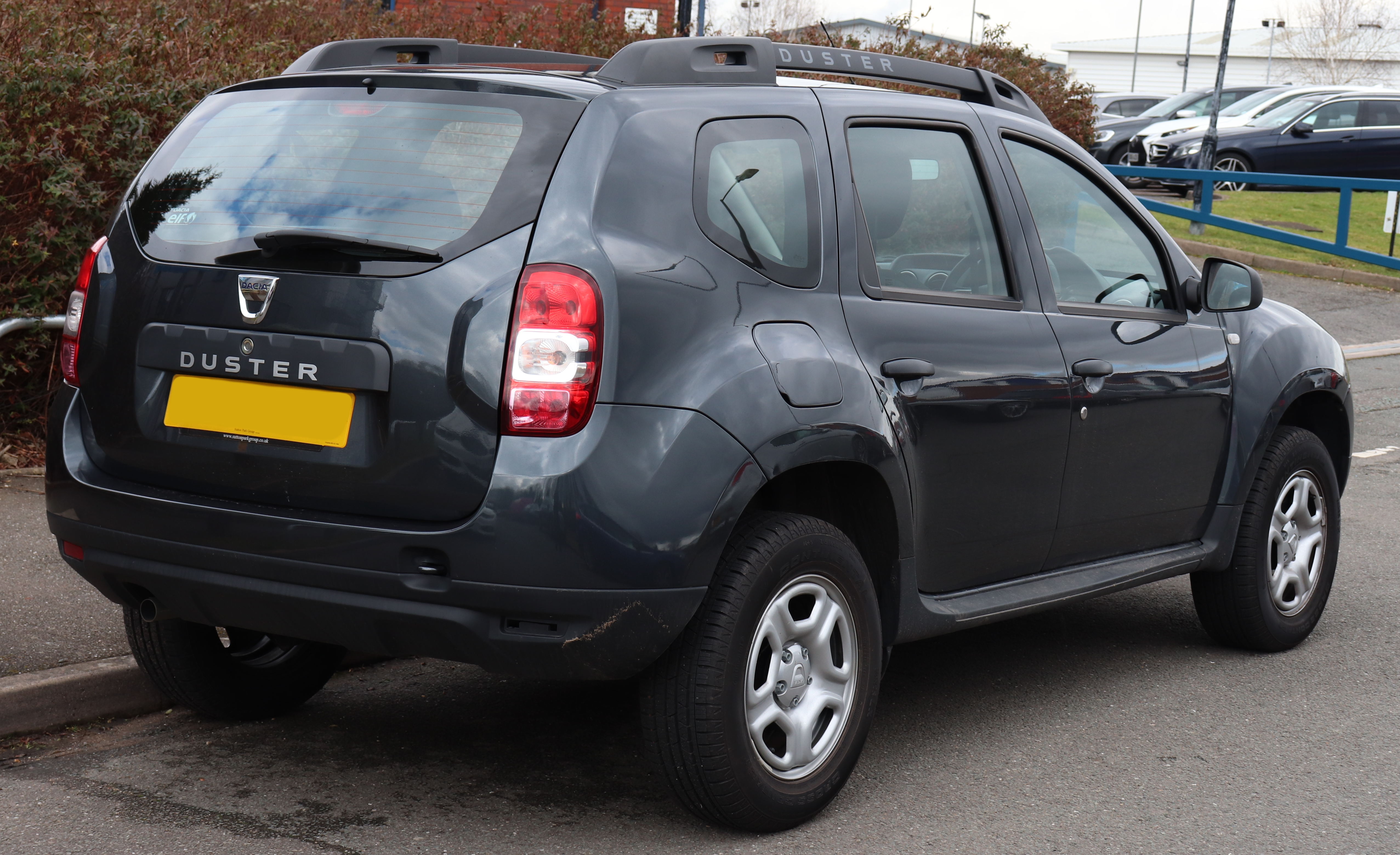 2017 Dacia Duster Ambiance DCi 4X2 1.5 Rear Taken in Leamington Spa